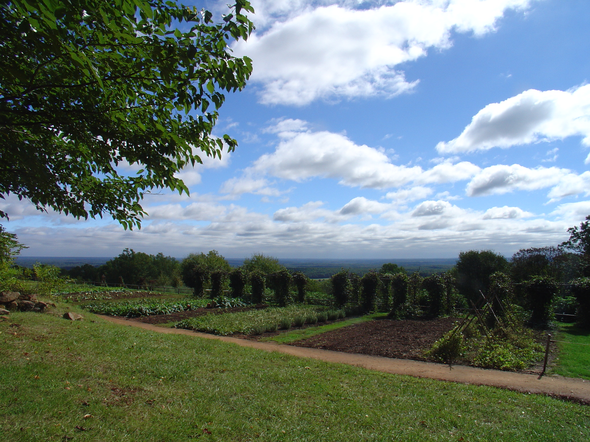 I took this photo in the late summer of 2005 at Monticello. This shows Jefferson's vegetable garden in the foreground with the landscape of Virginia in the valley below.